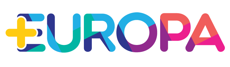 More Europe logo.